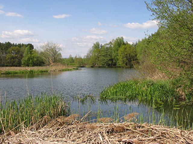 Backwaterpart of the Spree near Lübben, Germany